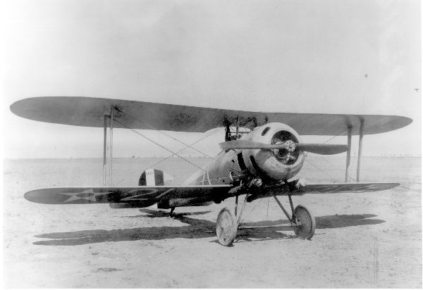 Nieuport 28 in United States Army Air Service markings.